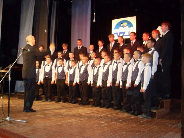 International choir festival